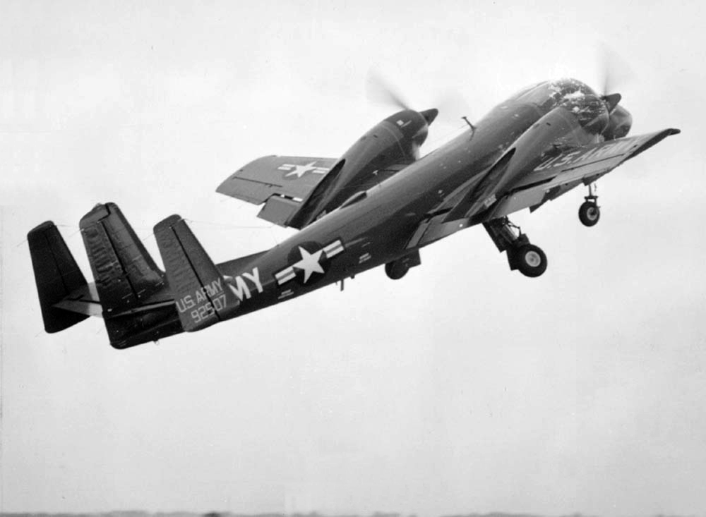 A U.S. Army Grumman OV-1A Mohawk (s/n 59-2607) taking off. This aircraft crashed on 16 June 1965.